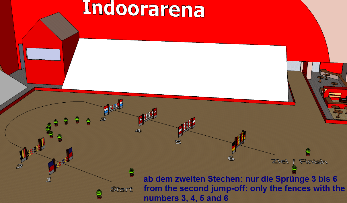 Show jumping: example of a six bar competion (3D version). Created with Google SketchUp 8, exported as PNG, reworked with Paint.